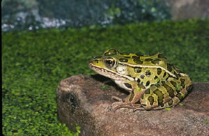 Northern leopard frog, from government resource at (public domain).